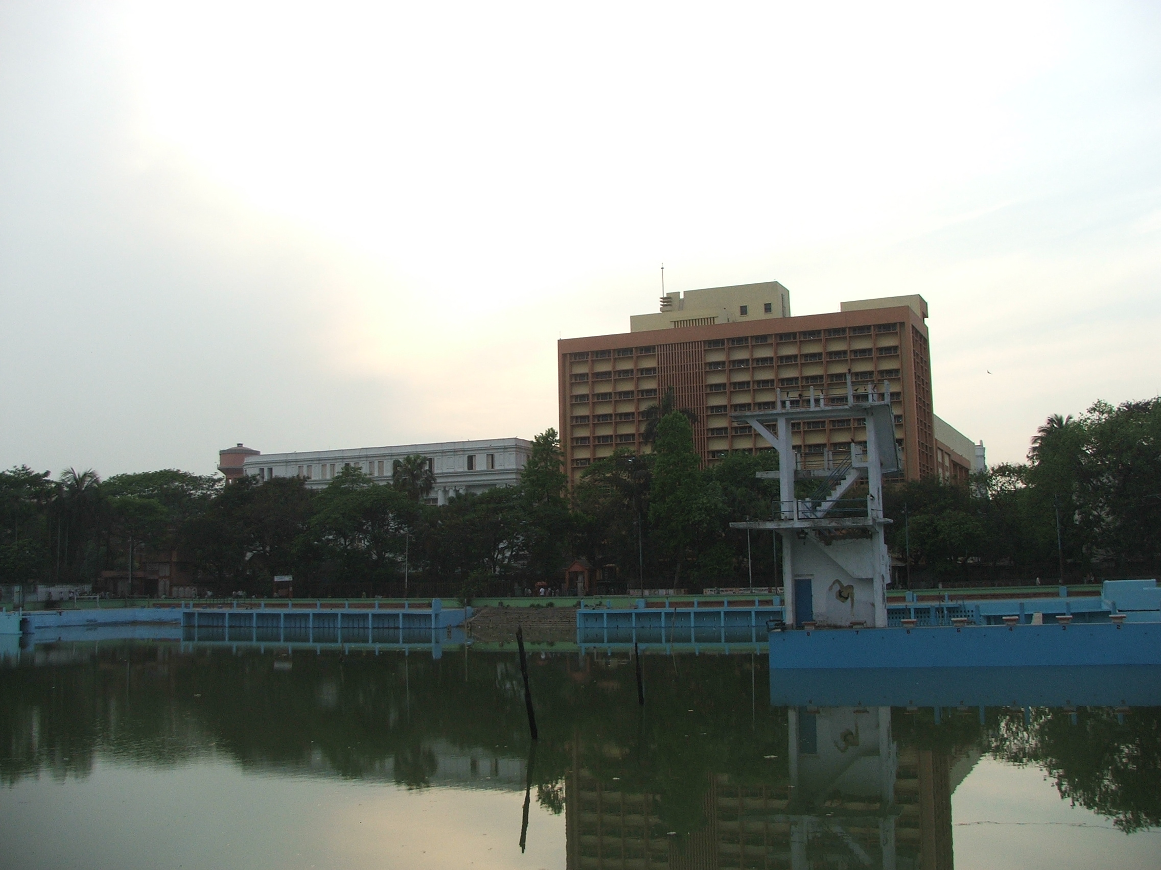 kolkata university, I took this photo on the summer of 2004